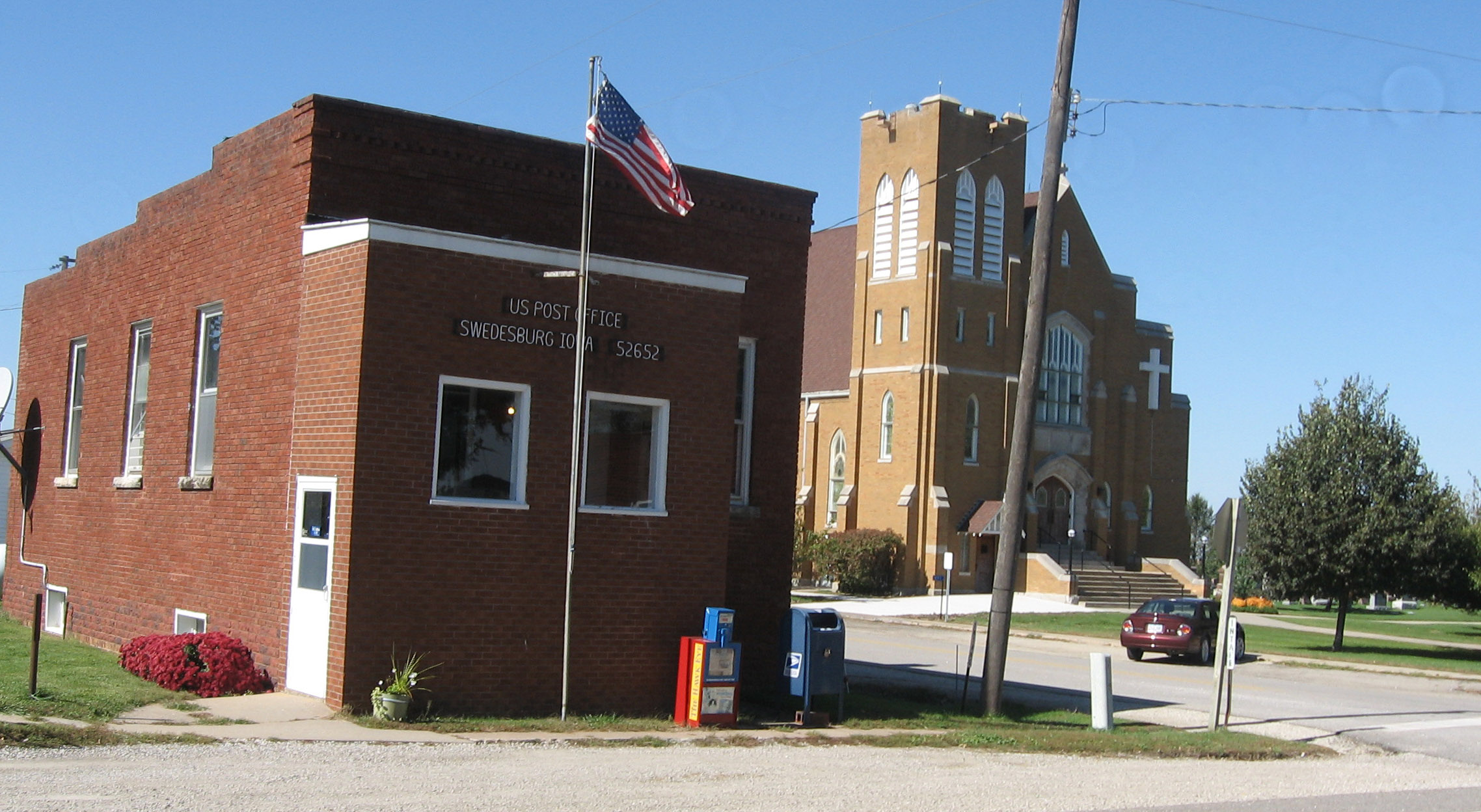 Swedesburg, Iowa [Added by Nyttend: post office appears to be on the southwestern corner of the intersection of James and 140th, and church on the northwestern corner. Church is the Swedish Evangelical Lutheran Church listed on the National Register of Historic Places]